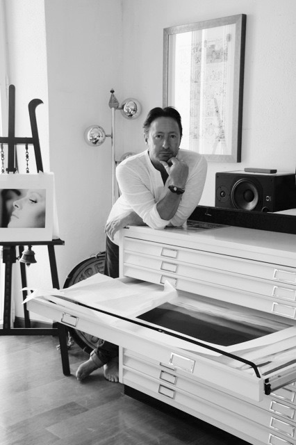 Julian Lennon at home in 2015.